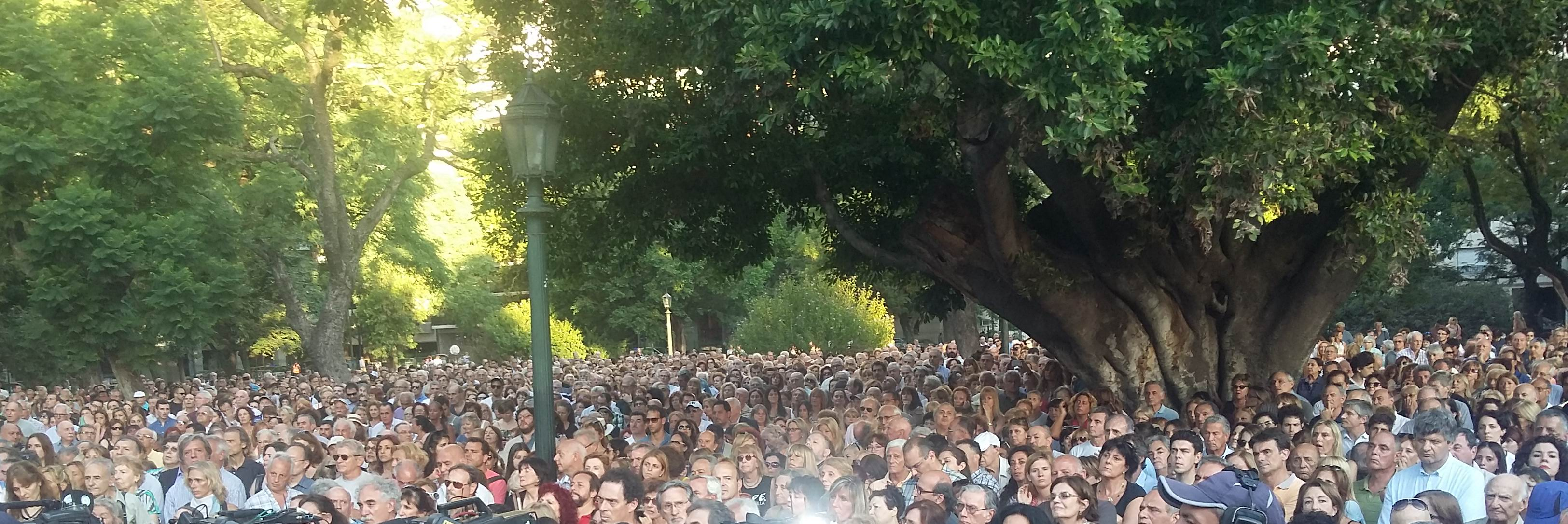 Protest march in Buenos Aires 1 year death anniversary of Alberto Nisman